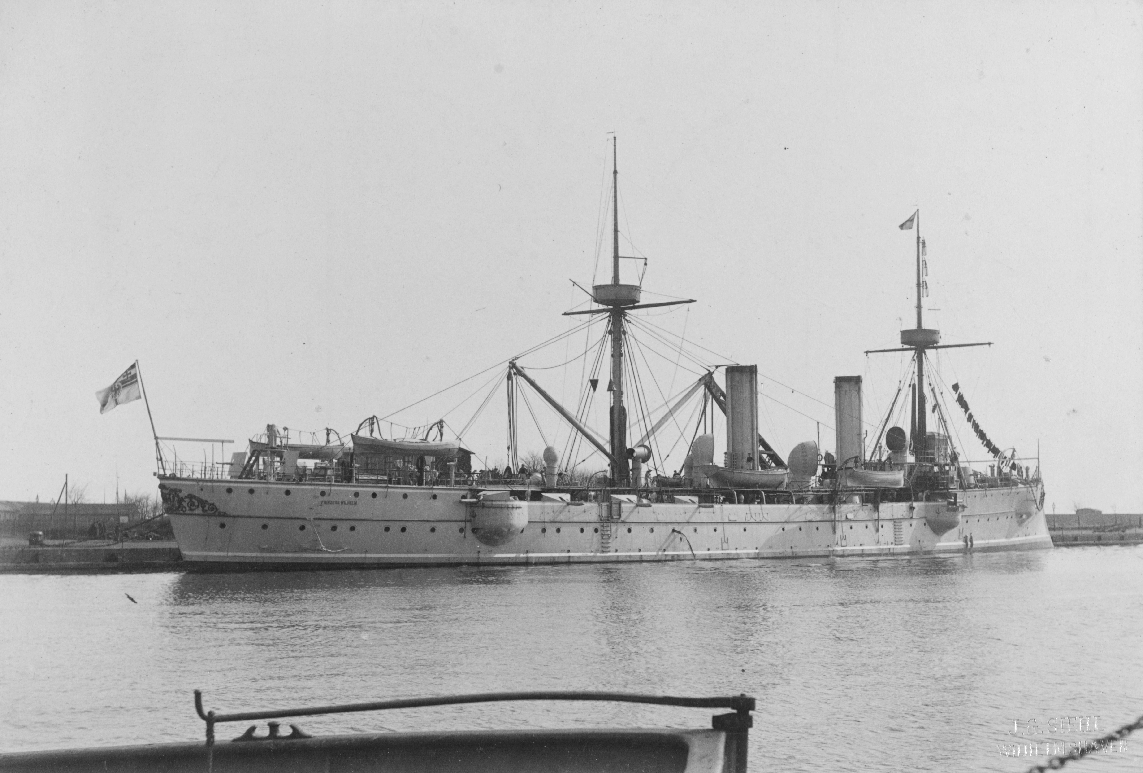 Title: German Cruiser PRINZESS WILHELM (CL--1889) Caption: SMS PRINZESS WILHELM, after her 1893 changes in battery.